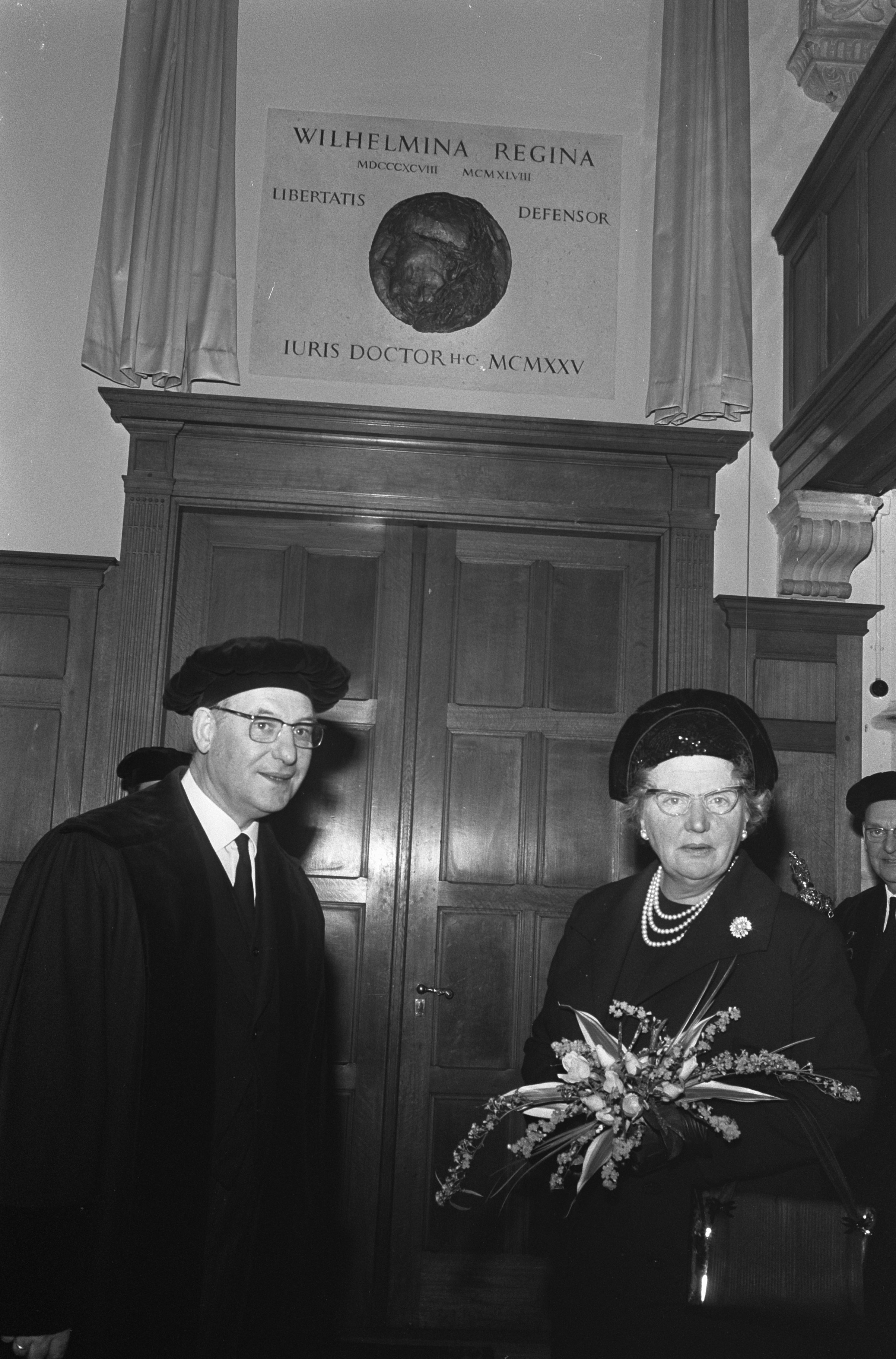 Johan Dankmeijer, rector magnificus of Leiden University (the Netherlands) with Queen Juliana of the Netherlands. Academiegebouw Leiden, 26 november 1965, during the unveiling of a commemorative plate for Queen Wilhelmina